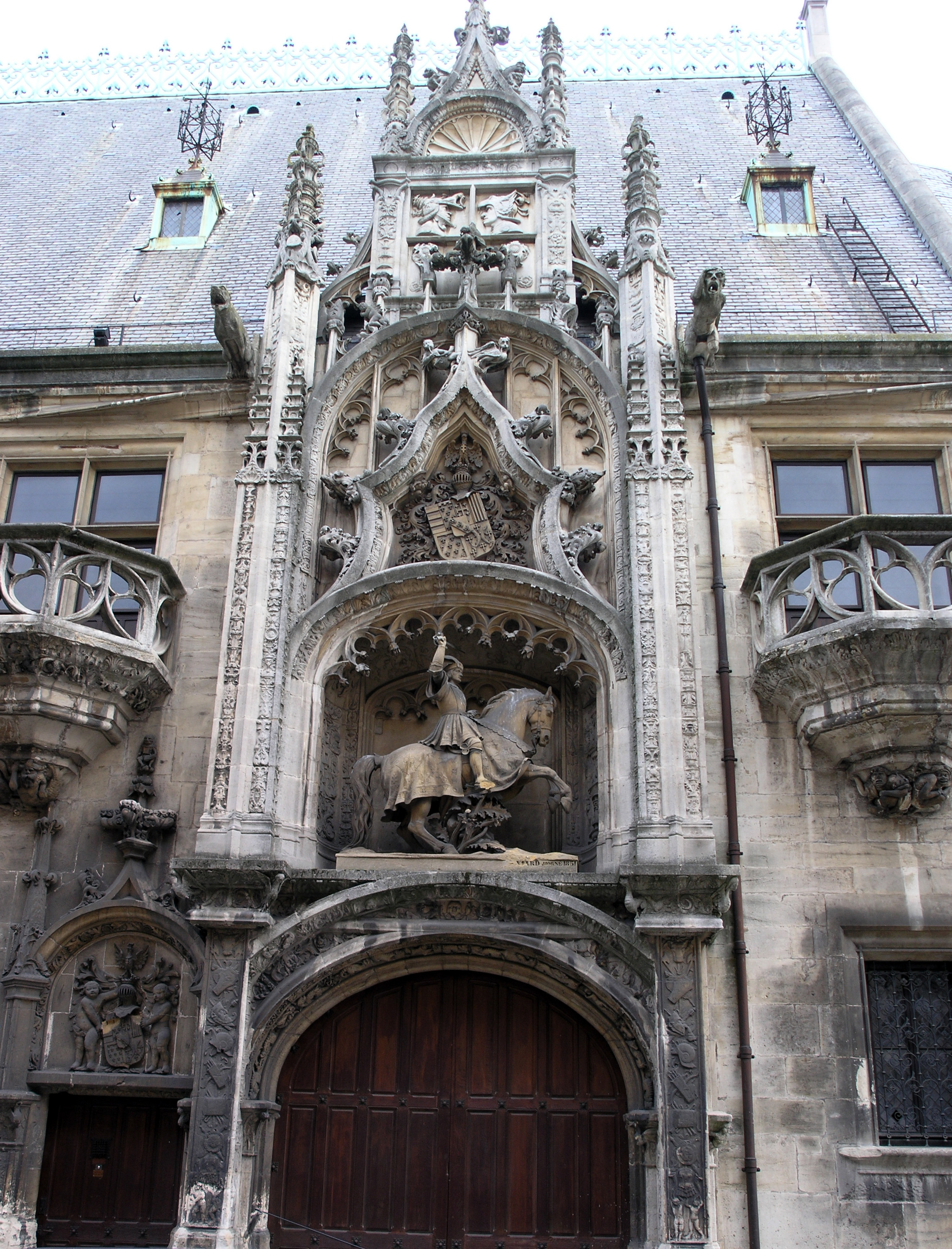 Main gate ("porterie") of the Palais ducal (Musée lorrain) in Nancy, France. Photograph taken by Marsyas 15:35, 25 February 2006 (UTC)